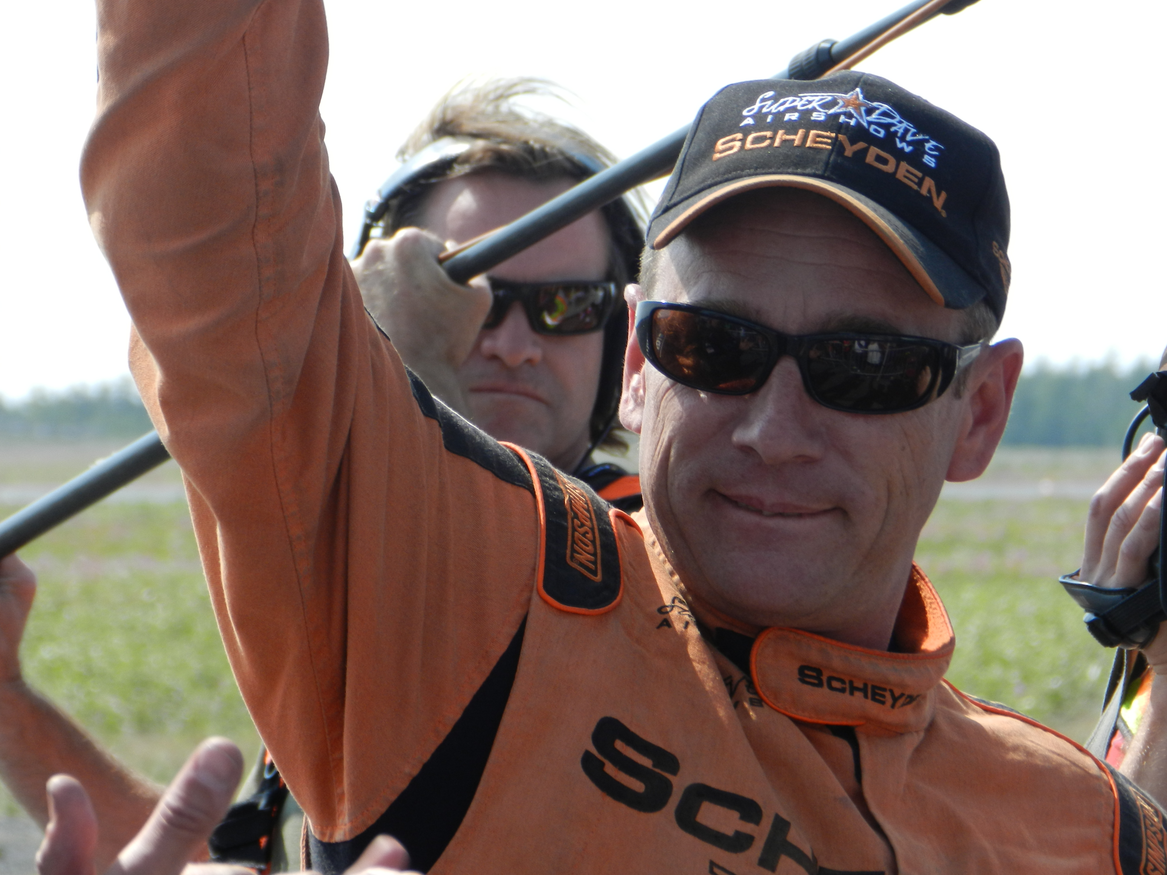 Dave Mathieson pilot of C-FMYA